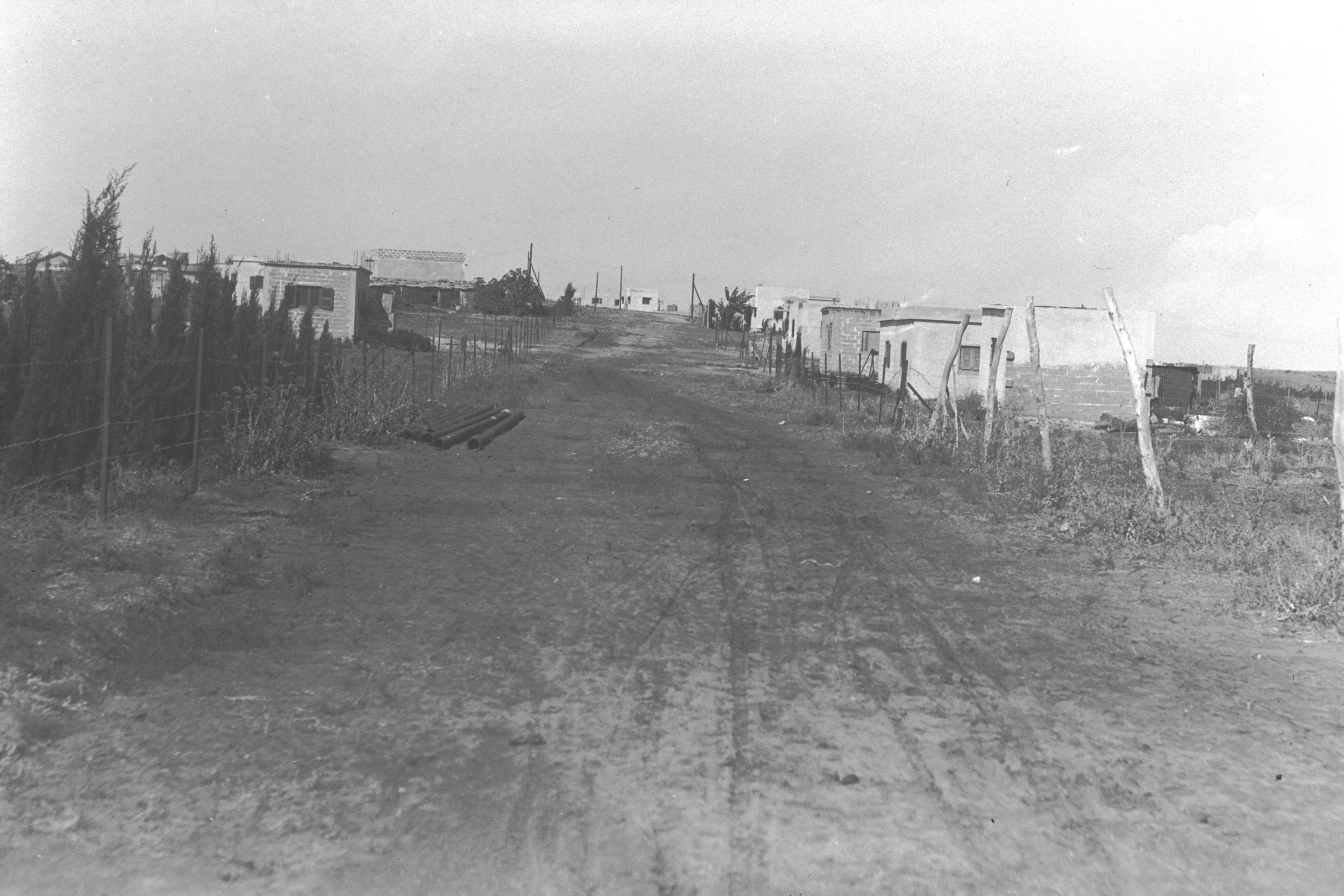 MOSHAV ELYASHIV IN THE HEFER VALLEY